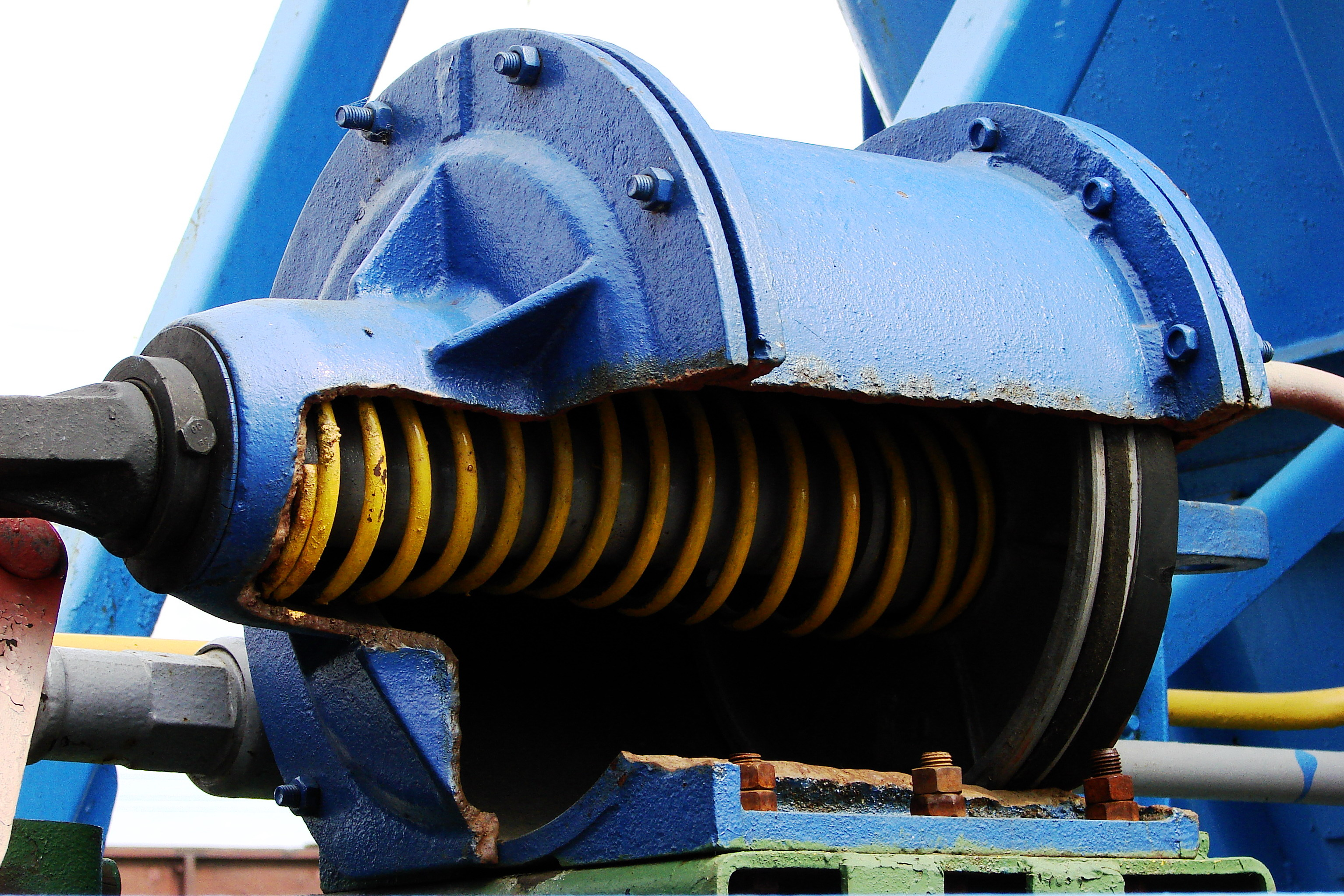 brake cylinder